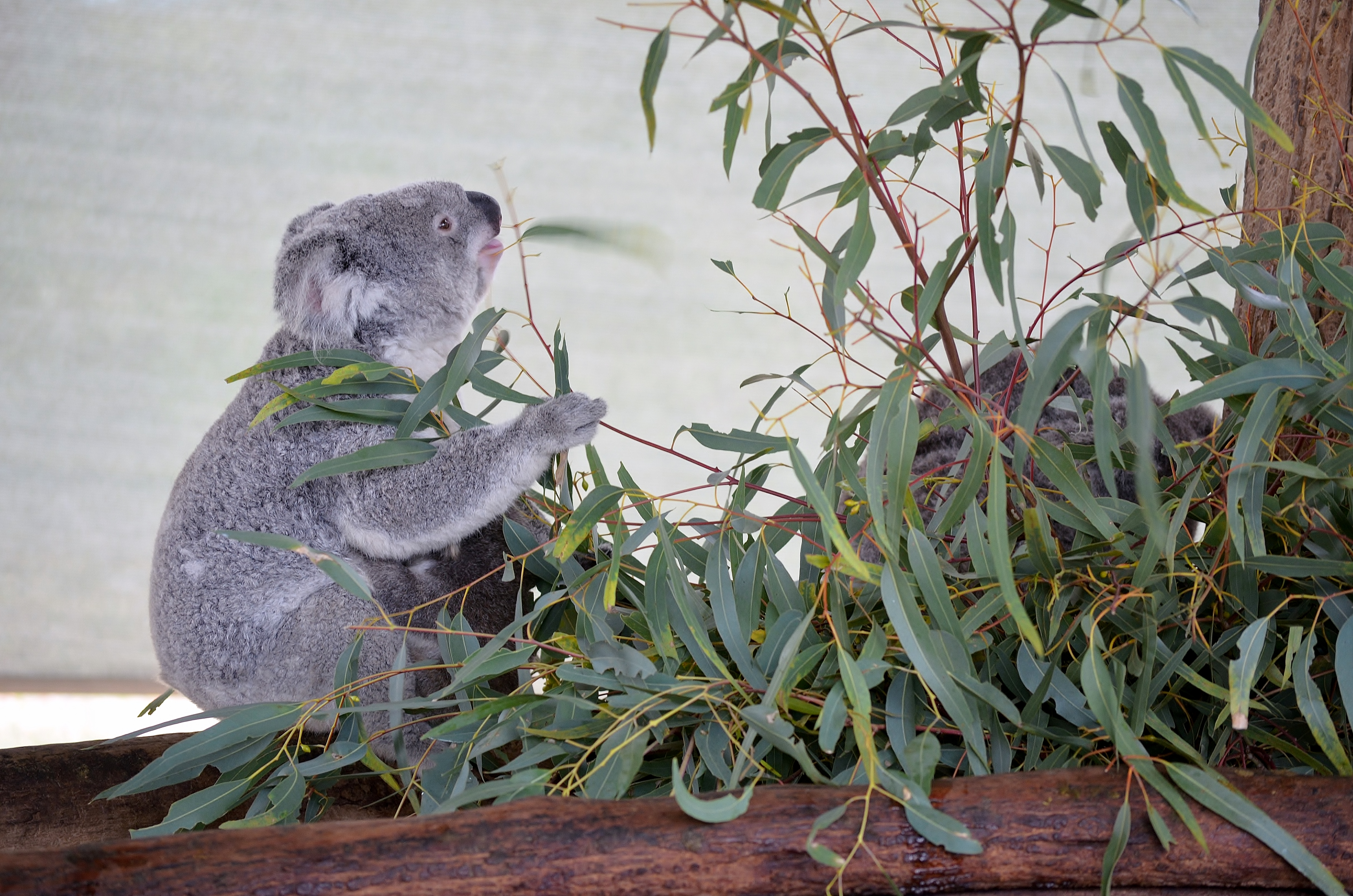 A hungry koala at Cohunu Koala Park in Byford, Western Australia.